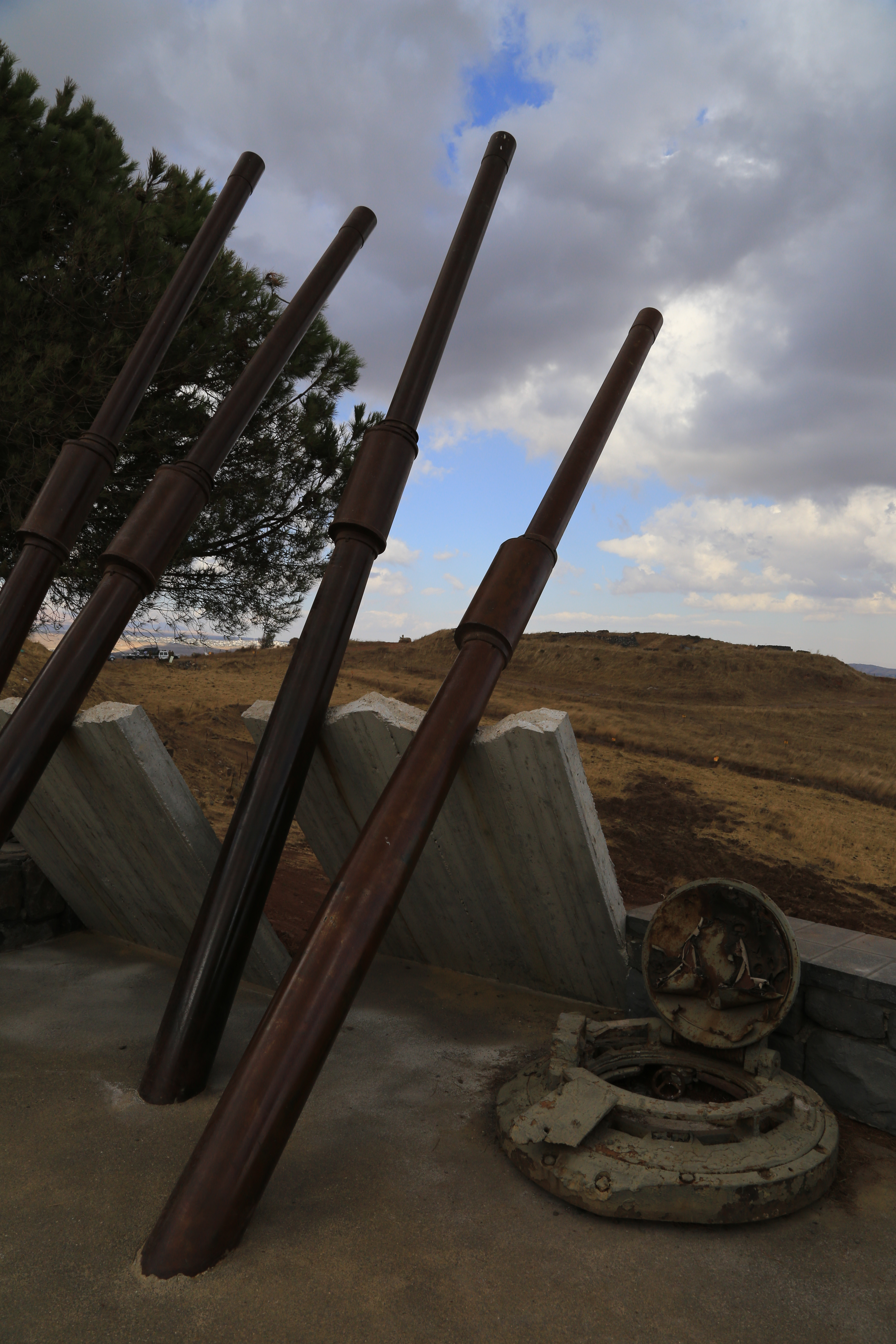 Valley of Tears - 40 years to Yom Kippur War in Golan Heights